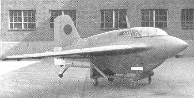 Mitsubishi J8M Shusui Sword Stroke Komet J8M-10